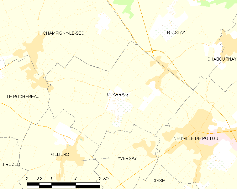 Map of French municipality Charrais